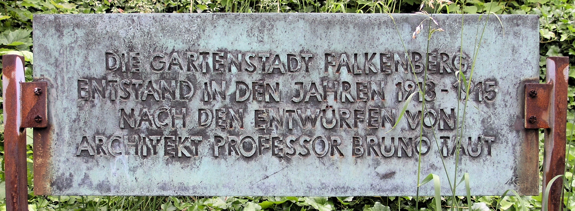 Memorial plaque, Gartenstadt Falkenberg, Gartenstadtweg 53, Berlin-Bohnsdorf, Germany